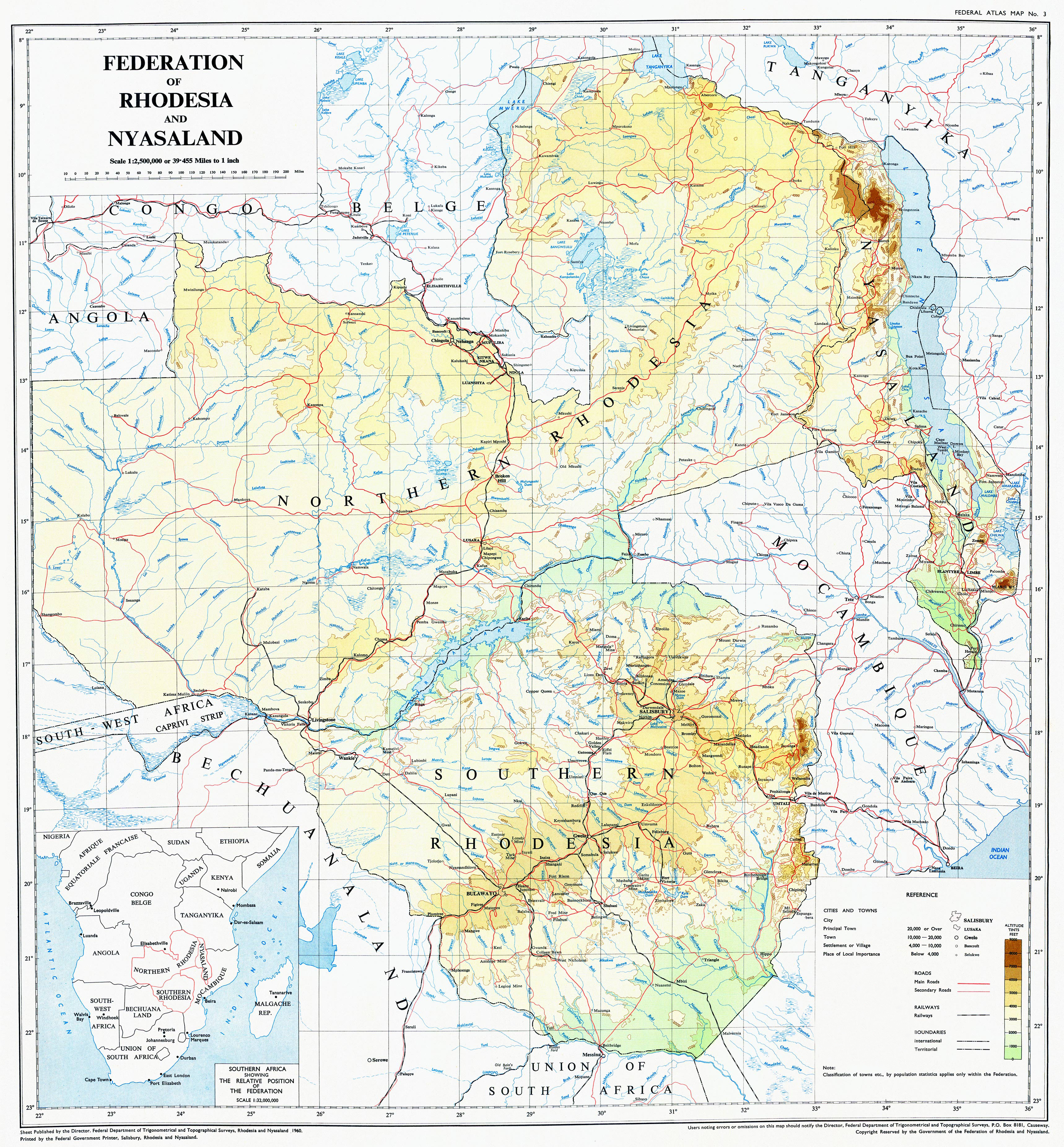 A map of the Federation of Rhodesia and Nyasaland, issued by the Government in 1960